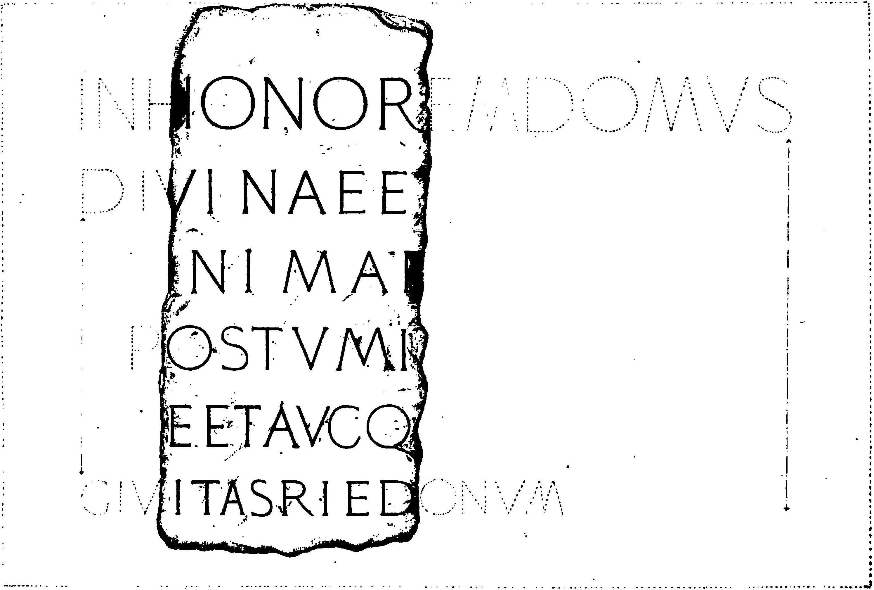 Image from the book File:Mowat - Études philologiques sur les inscriptions gallo-romaines de Rennes.djvu, page 33, second image.